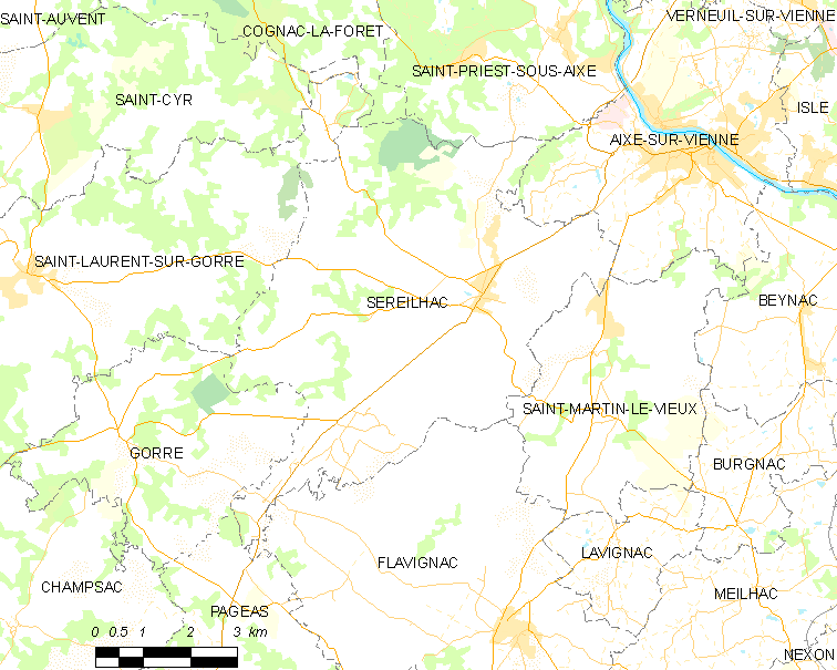 Map of French municipality Séreilhac